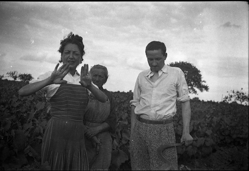 Photo de 1941